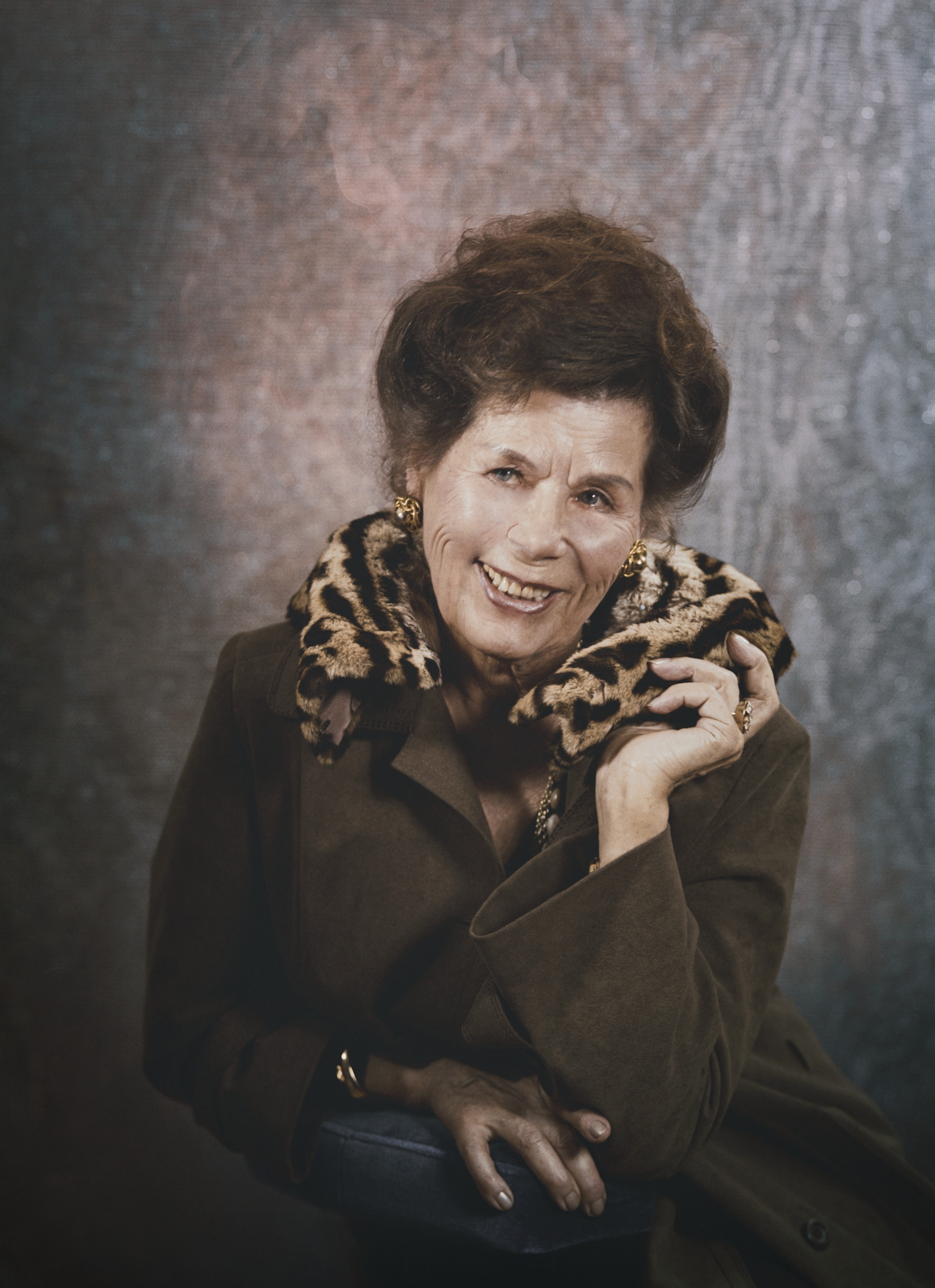 Photograph of the Finnish writer Taru Stenvall (1909–1999).